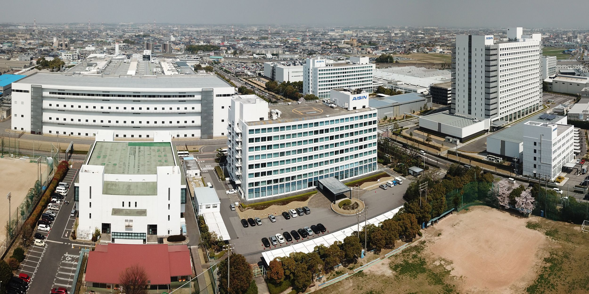 The head word of AISIN-SEIKI (KARIYA-City, AICHI-Pref., JAPAN)